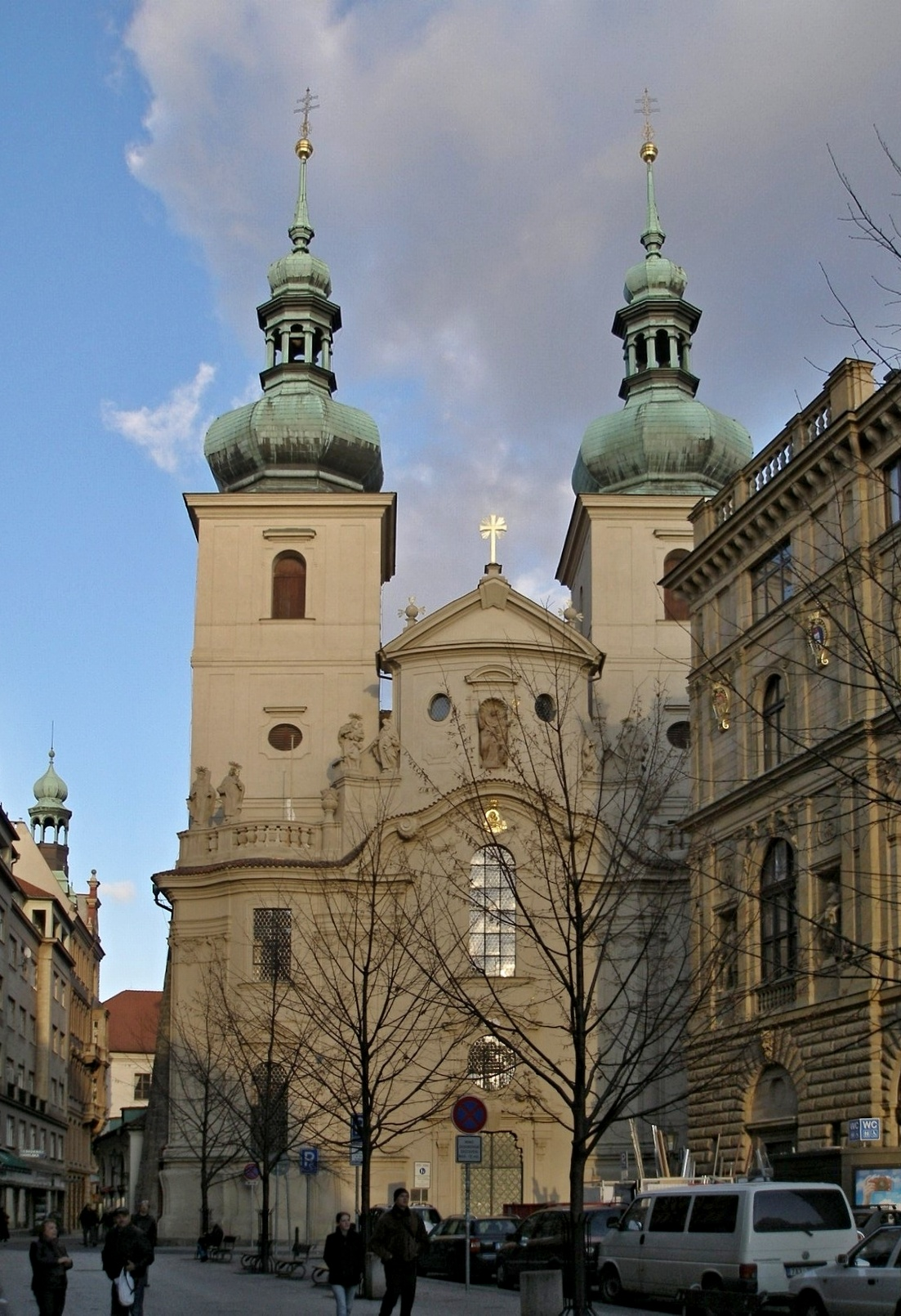 St. Gallus Church in Prague, Czechia